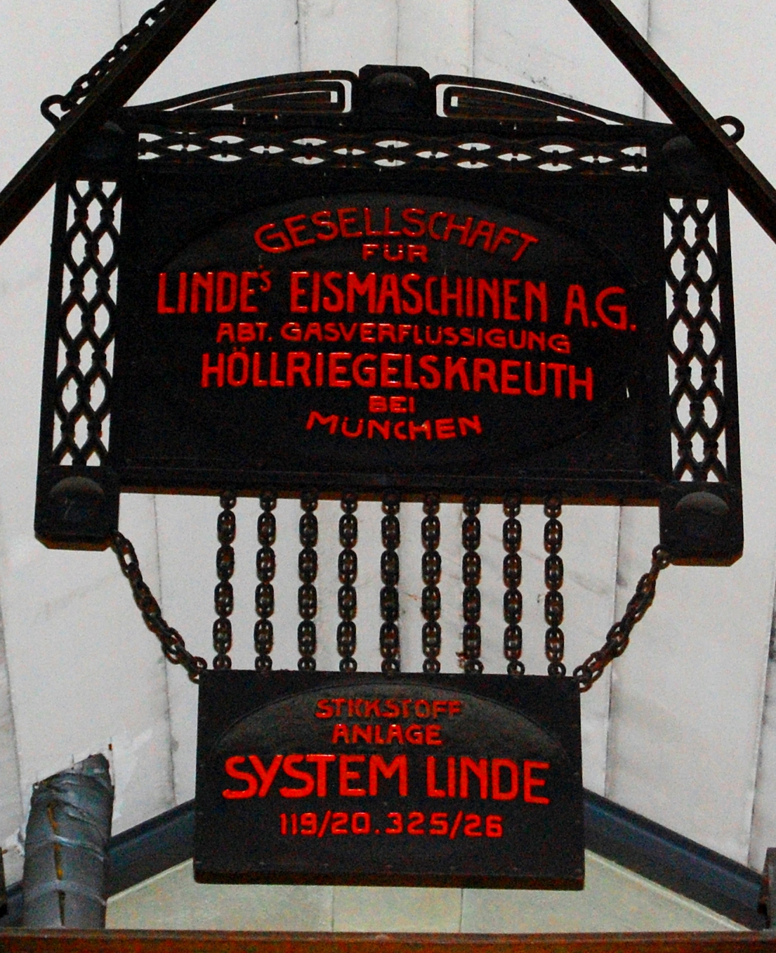 Plaque in Lindehuset (1908), the Nitrogen factory (Frank-Caro process) at Odda Smelteverk, Norway